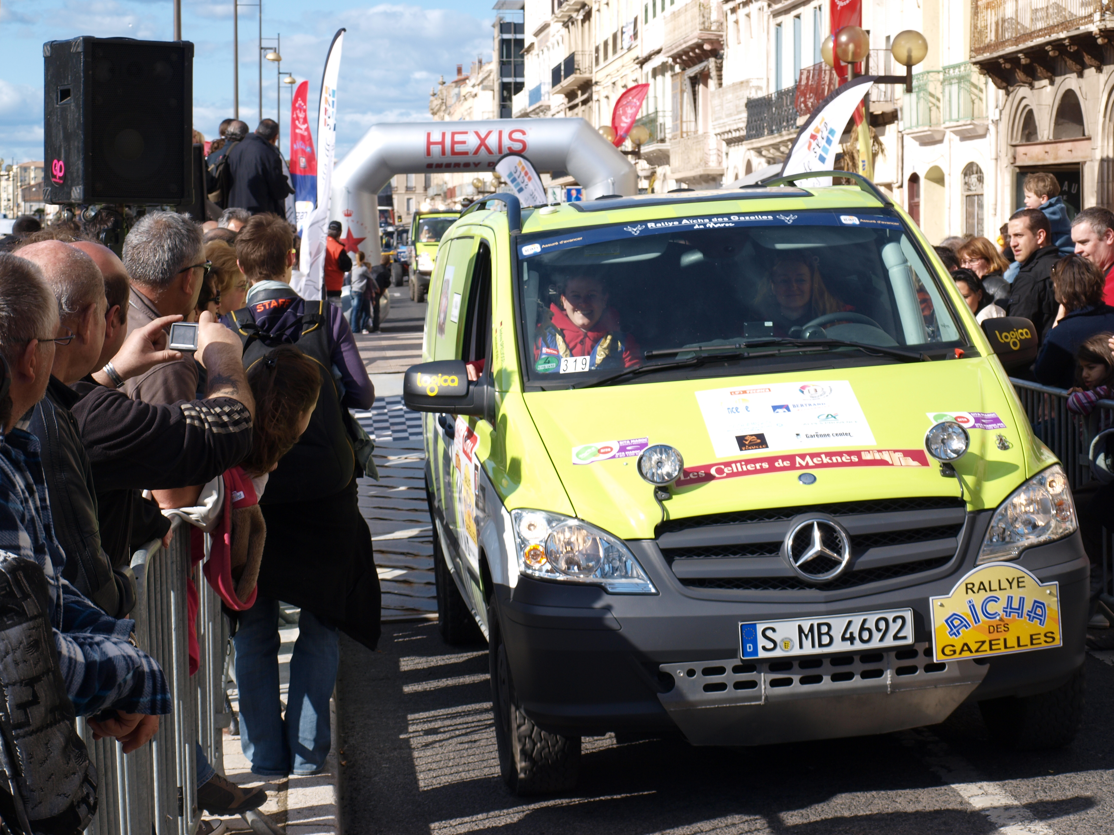 2011 Team 319 Mercedes-Benz Vito 4x4 (Andrea Spielvogel/Anneke Voss) on the ramp in Sete